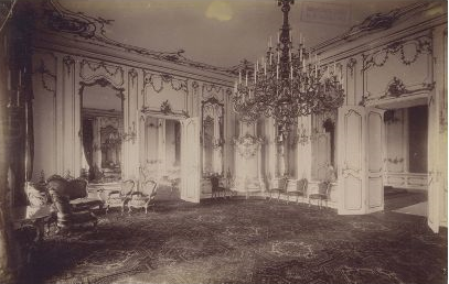 "Circle" Tea Salon in the Royal Castle of Budapest.